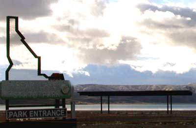 Sign at the entrance of the north unit of Bear Lake State Park in Bear Lake County (taken Oct. 18, 2004) © 2004 Matthew Trump Category:Bear Lake County